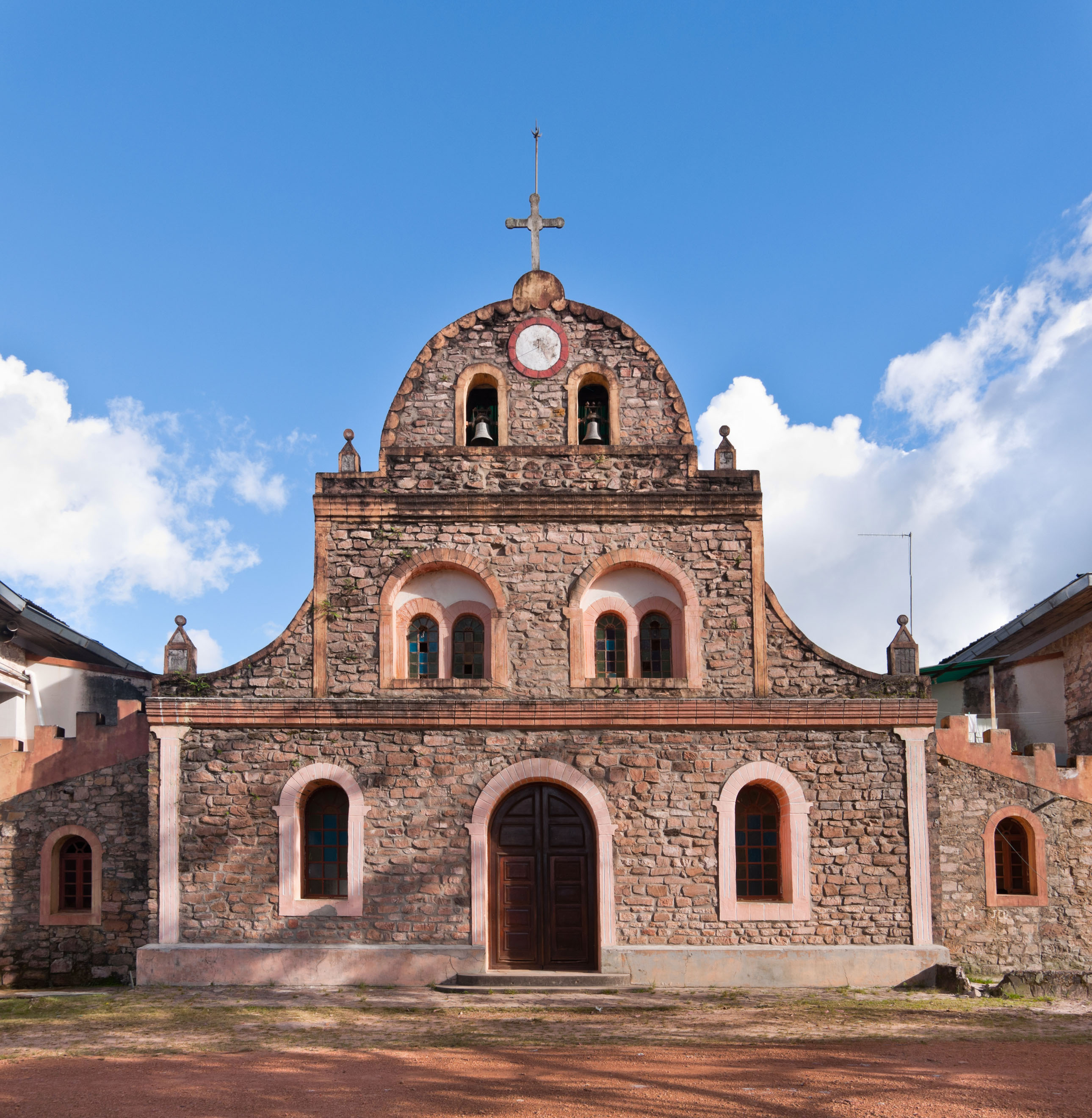 Santa Teresita de Kavanayén chapel in Kavanayen, Gran Sabana, Venezuela.